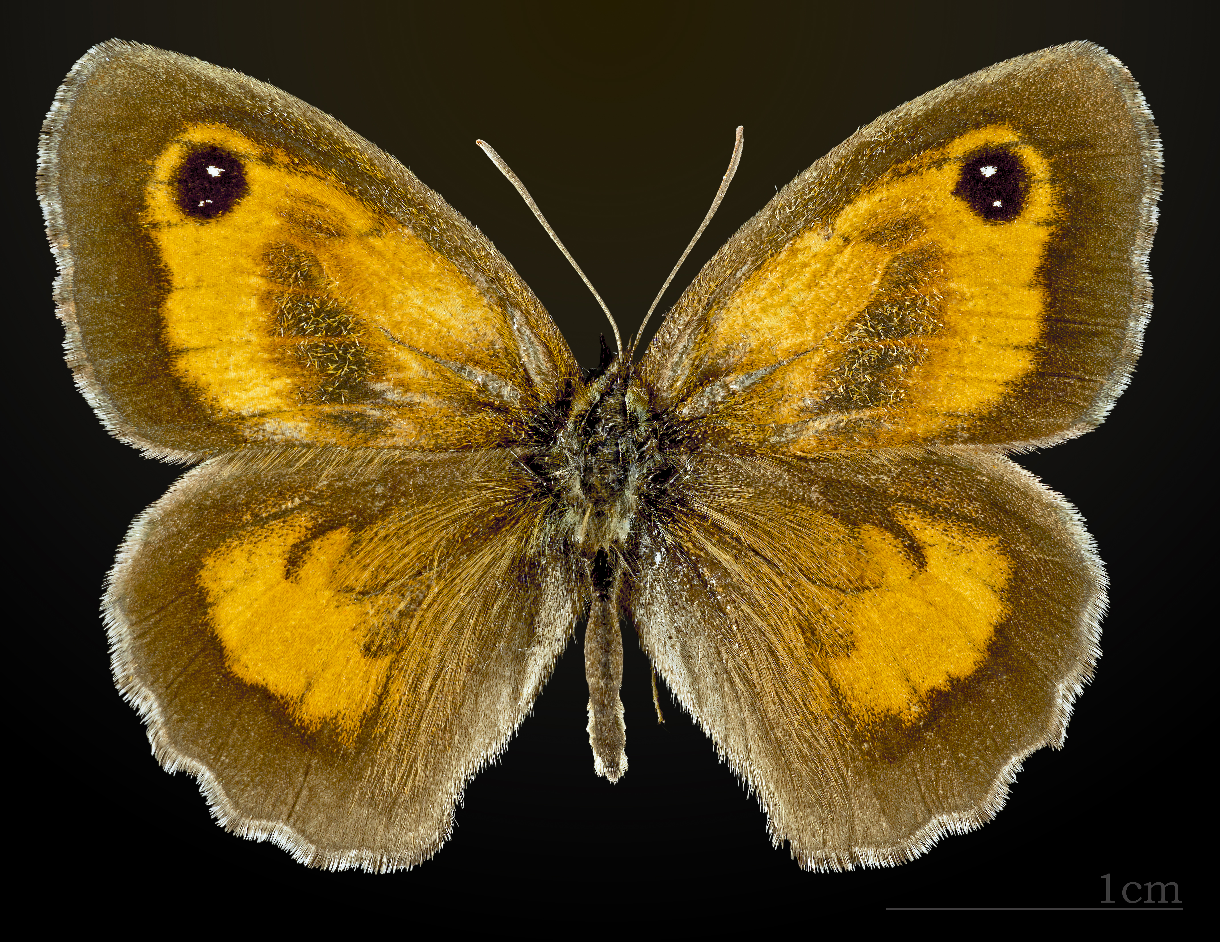 gatekeeper - ♂ Dorsal side Locality: Balma, Haute-Garonne, France